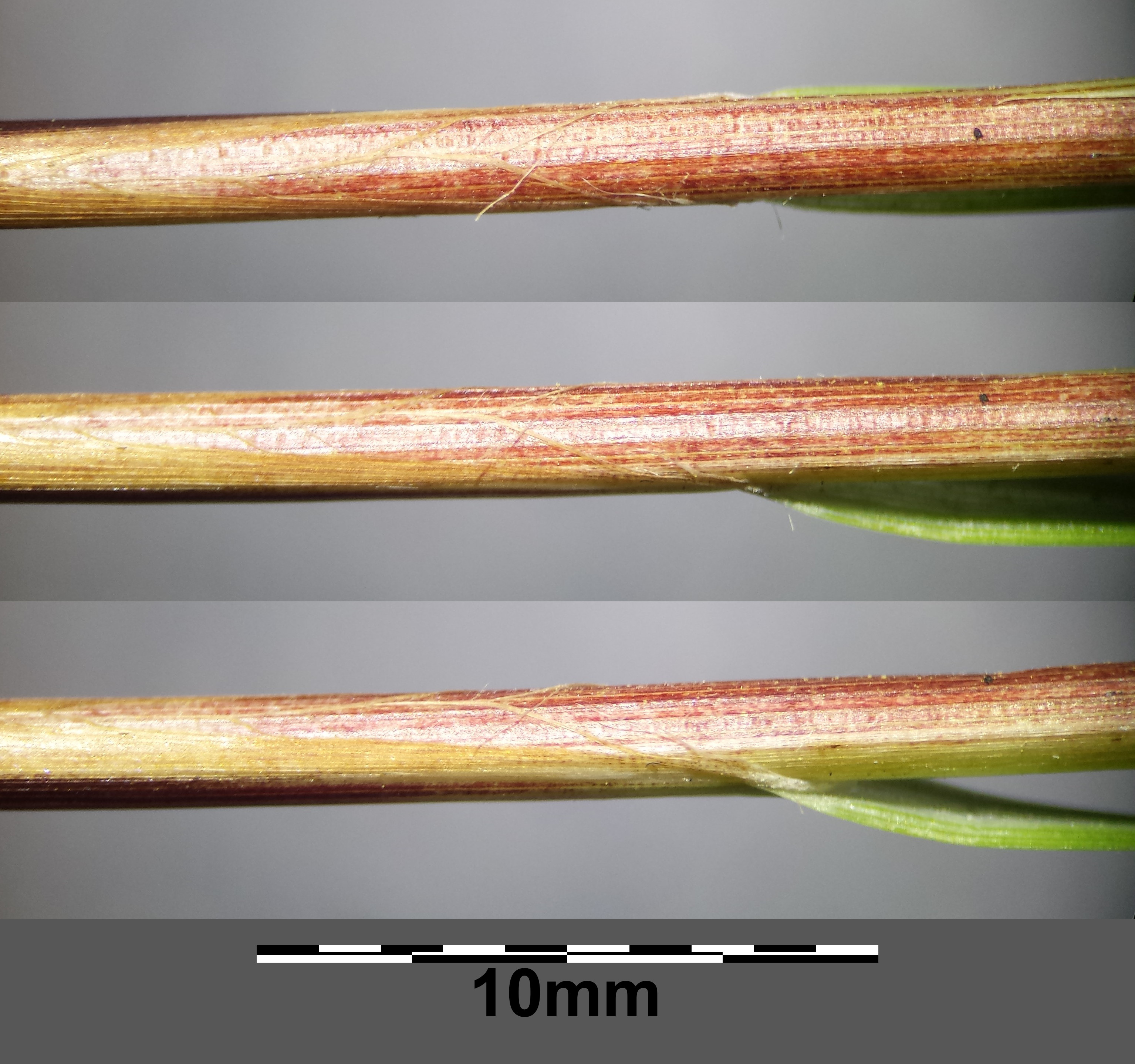 Fibrous, purple lower leaf sheath Taxonym: Carex tomentosa ss Fischer et al. EfÖLS 2008 ISBN 978-3-85474-187-9 Location: Dernberg, Nappersdorf-Kammersdorf, district Hollabrunn, Lower Austria - ca. 260 m ü. A. Habitat: semi-dry grassland